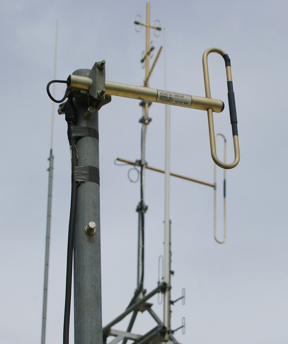 Folded dipole antenna.